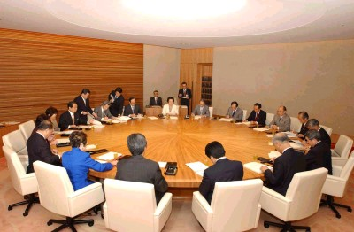 Jun'ichirō Koizumi, Prime Minister, presided the Cabinet Meeting at new Prime Minister's Official Residence in Chiyoda Ward, Tōkyō Metropolis on May 7, 2002.